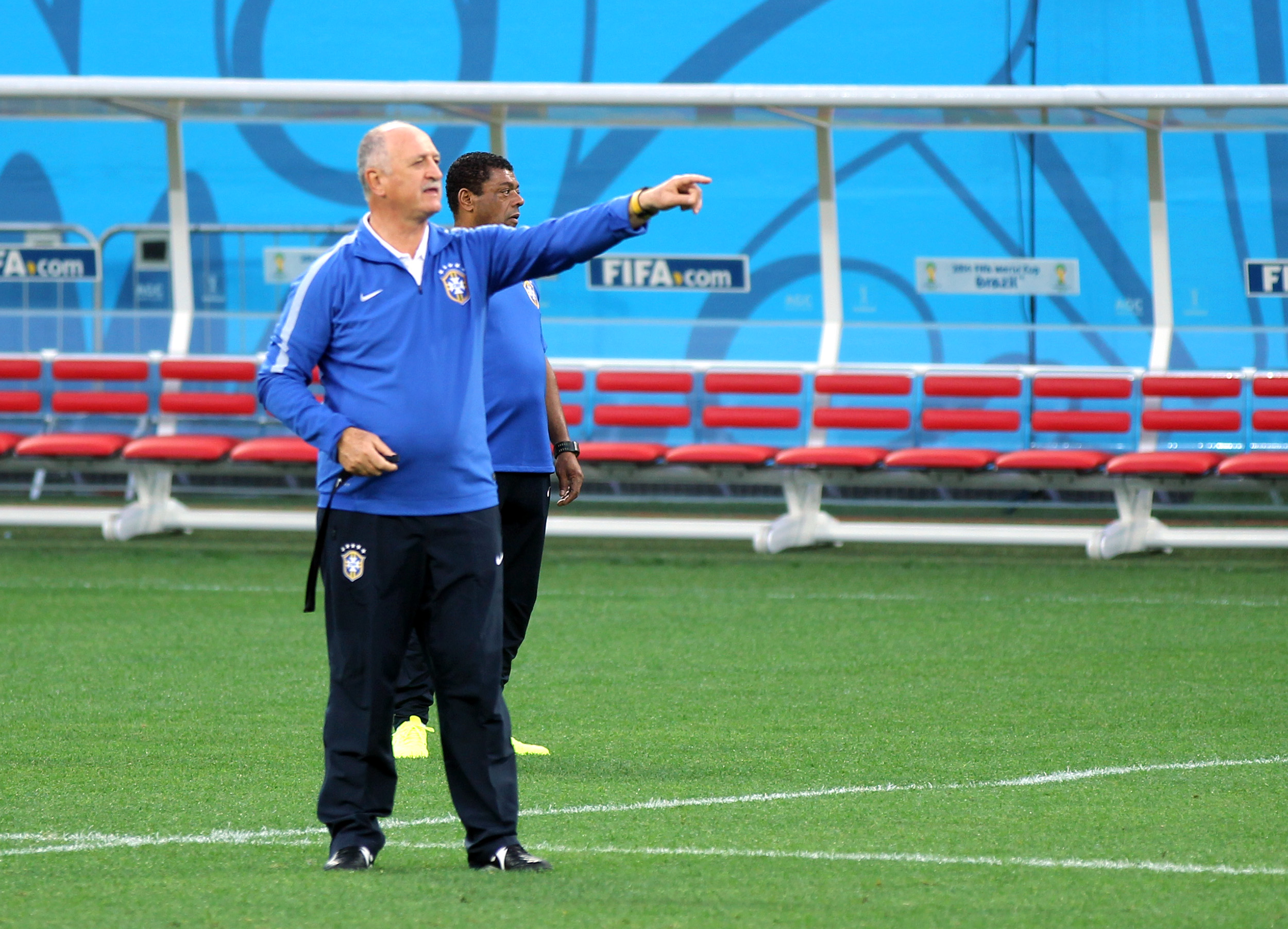 Brazil national team training for 1 day before the start of the first game of the 2014 World Cup qualifier against Croatia 2014-06-11